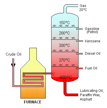 Diagram drawn by Theresa knott. This is a diagram of a typical, atmospheric pressure crude oil distillation tower used in petroleum refining (oil refineries).